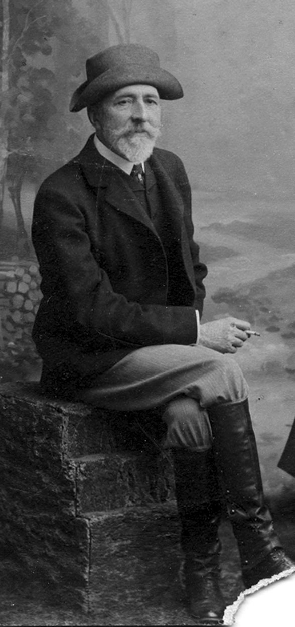 Giorgi Servashidze.